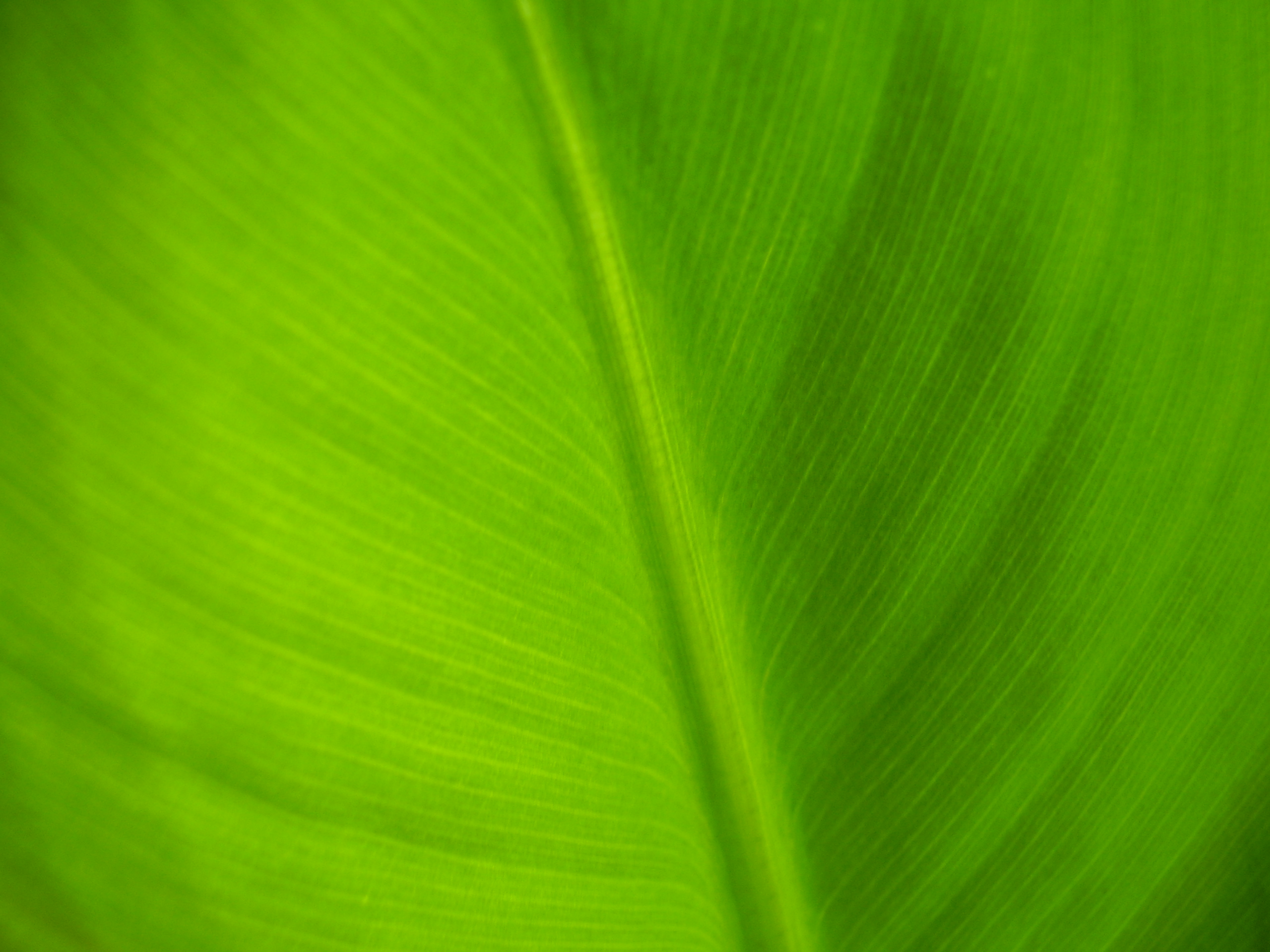 Close-up photo of the leaf of a Dwarf Cavendish (Musa acuminata) variety of banana plant. Photo taken in Penzance, Cornwall, UK; using an Olympus X-705 in Super Macro mode.